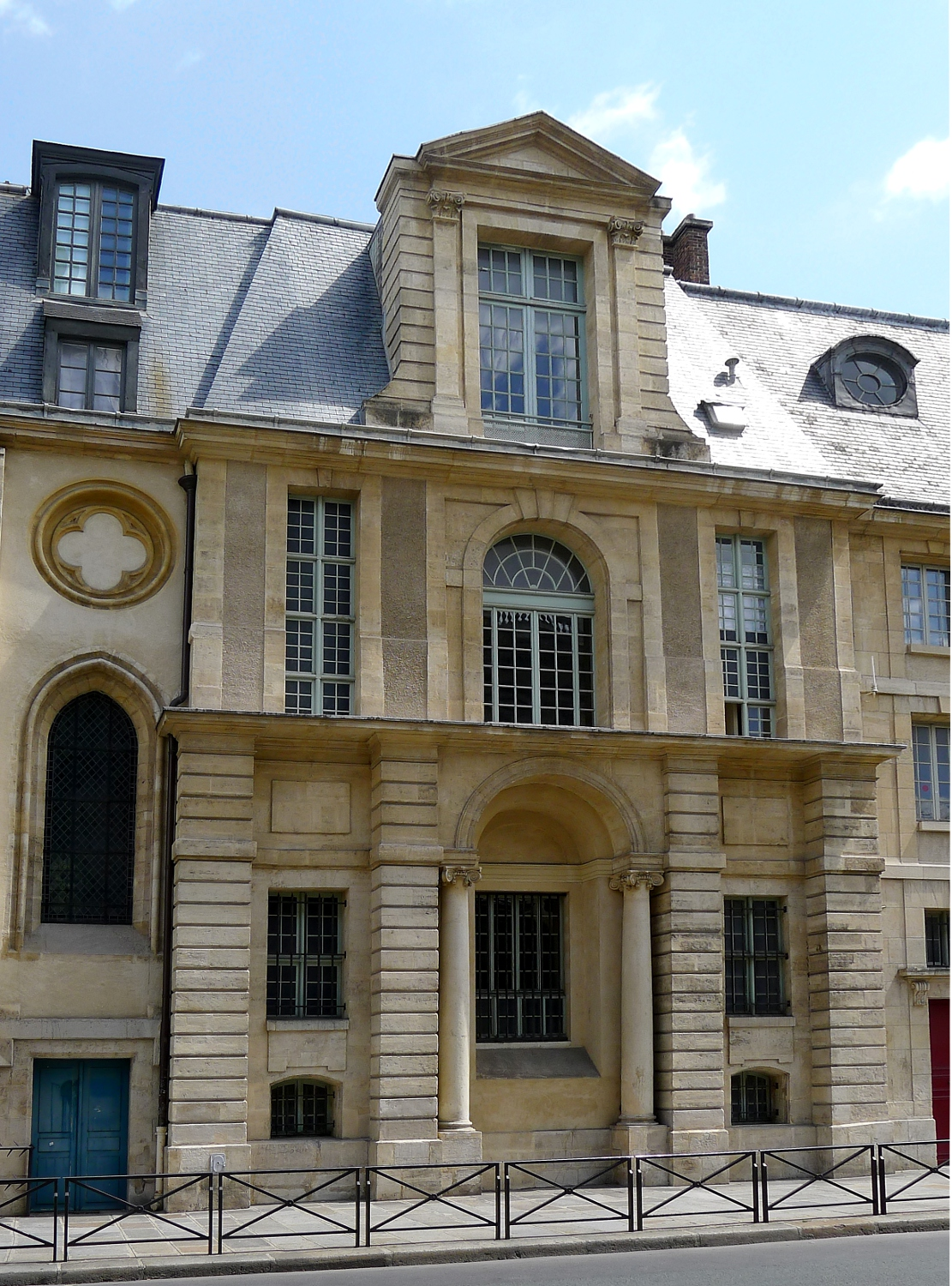 Rue Clotilde - Paris